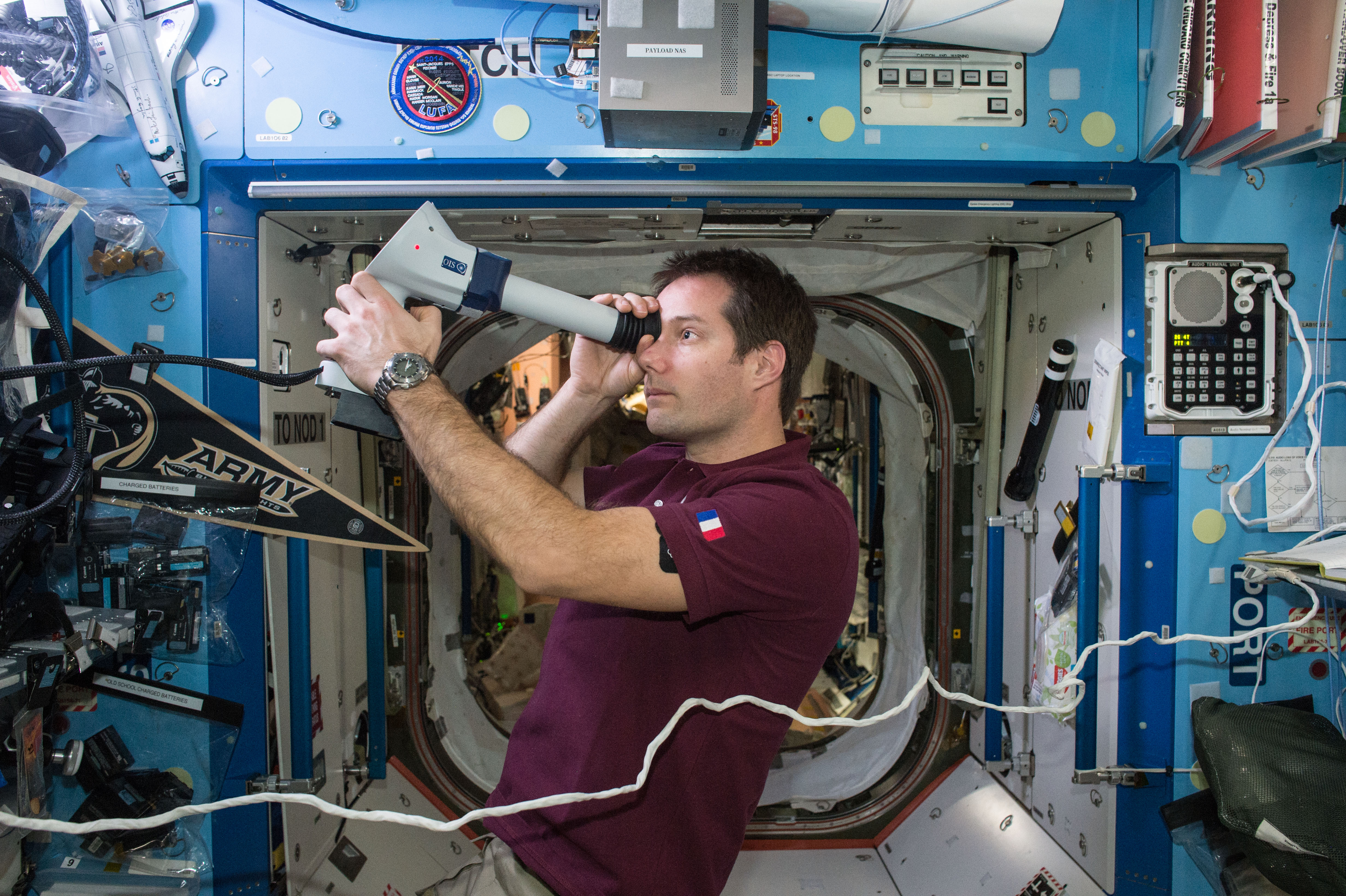 ESA (European Space Agency) astronaut Thomas Pesquet collects Fundoscope images of the back of the eye during a routine check into astronaut eyesight. Crew members' bodies change in a variety of ways during space flight, and some experience impaired vision.